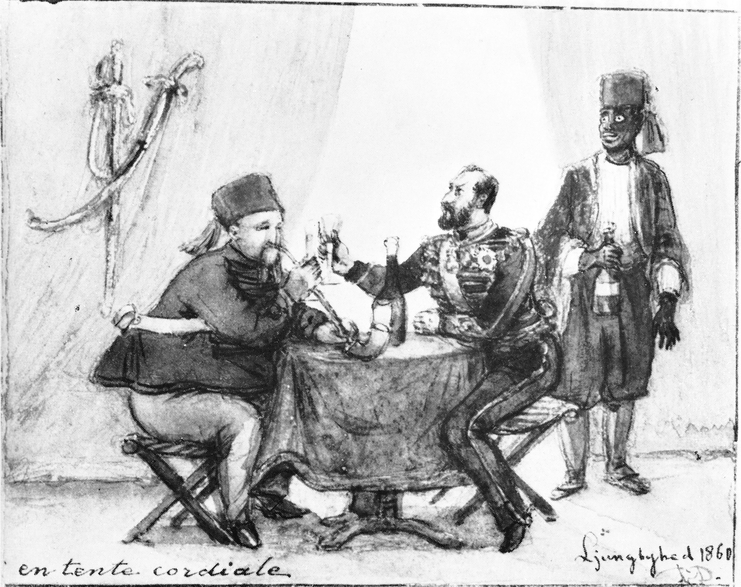 Fredrik VII of Denmark and Carl XV of Sweden sit tippling in the bivouac in Ljungbyhed in 1860.